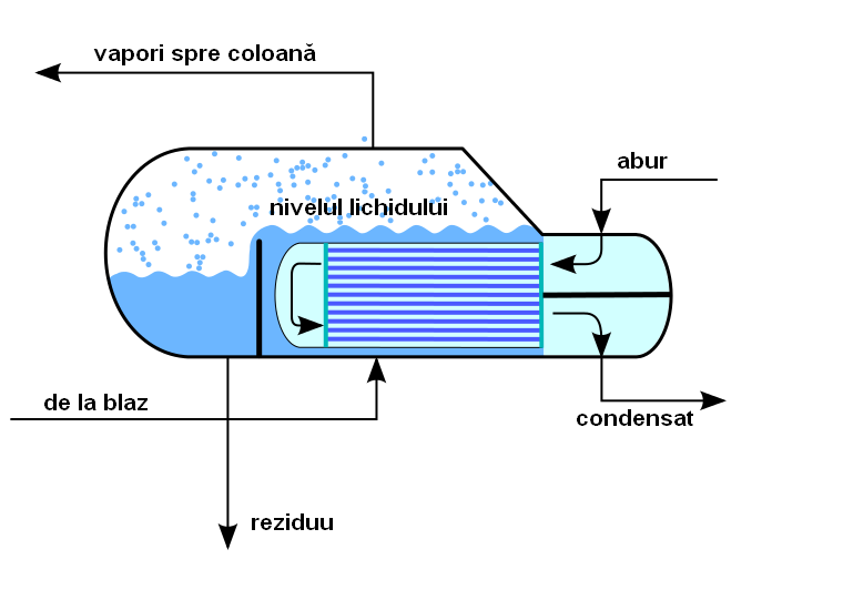 Cross-sectional diagram of an operating Kettle-type Reboiler used for industrial distillation towers.